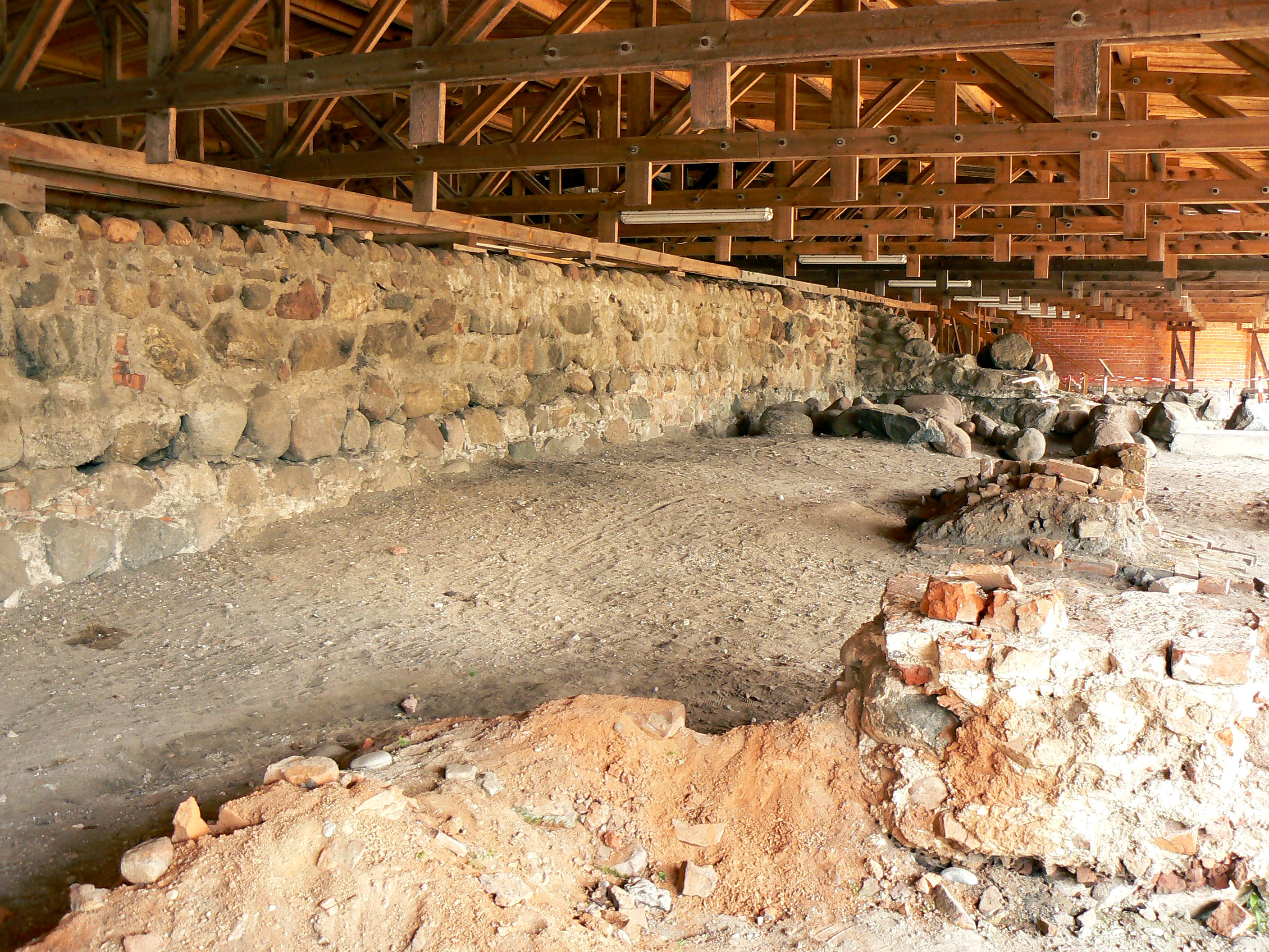 Klaipeda castle ruins.